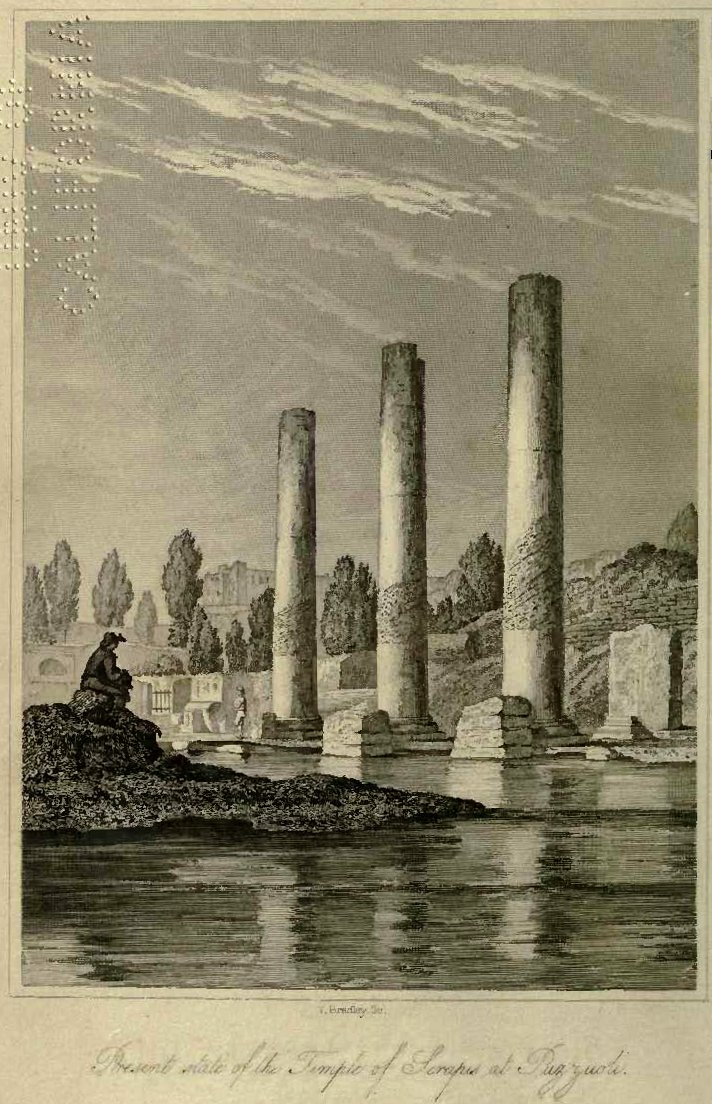 Pillars of the temple at Pozzuoli (Italy) used by Lyell to show former sea level differing from today. The corroded part at each pillar has once been below sea level. This higher sea level obviously is after the temple was built and was caused by downwarp and uplift of the land surface as a result of volcanic activity.